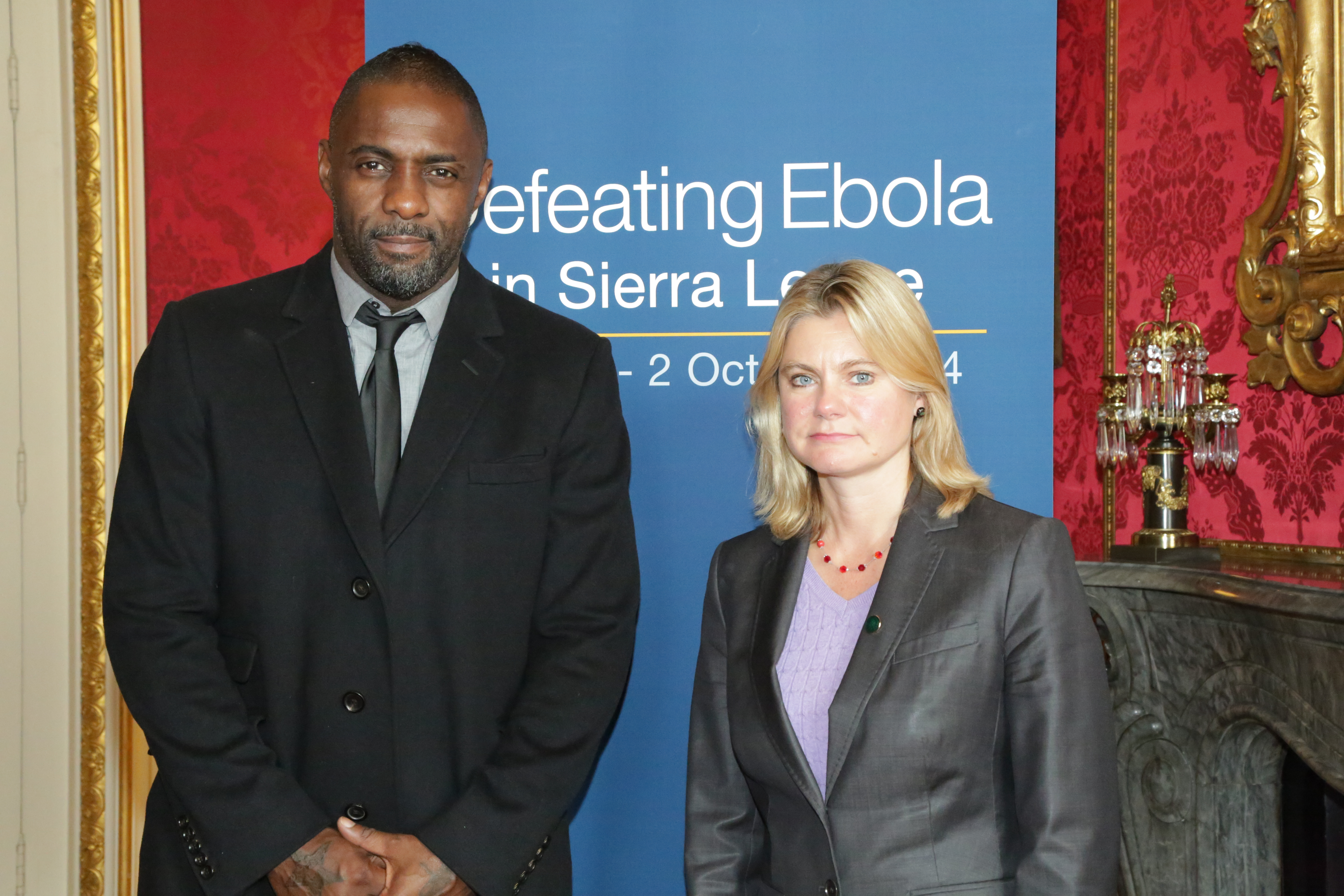 More information about the conference and the UK govenment's work to tackle Ebola: Picture: Jessica Lea/DFID